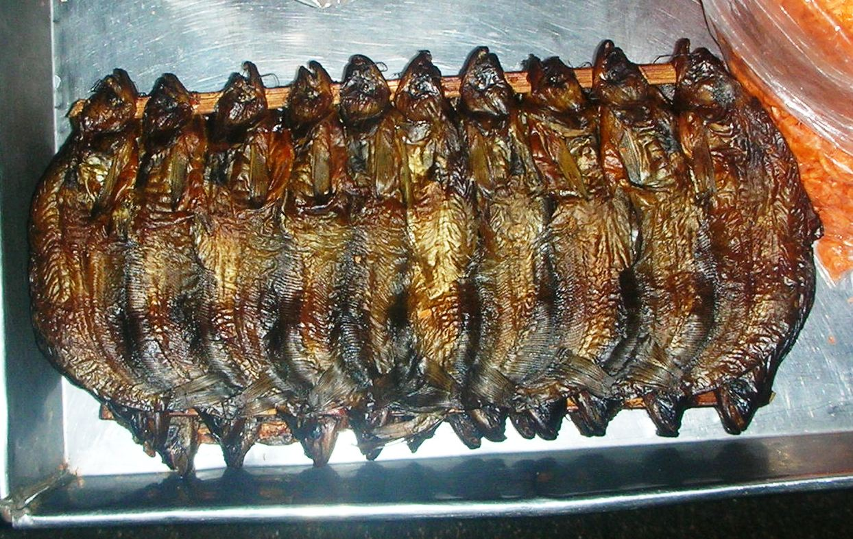 Dried and smoked Pla salat, a Khorat specialty